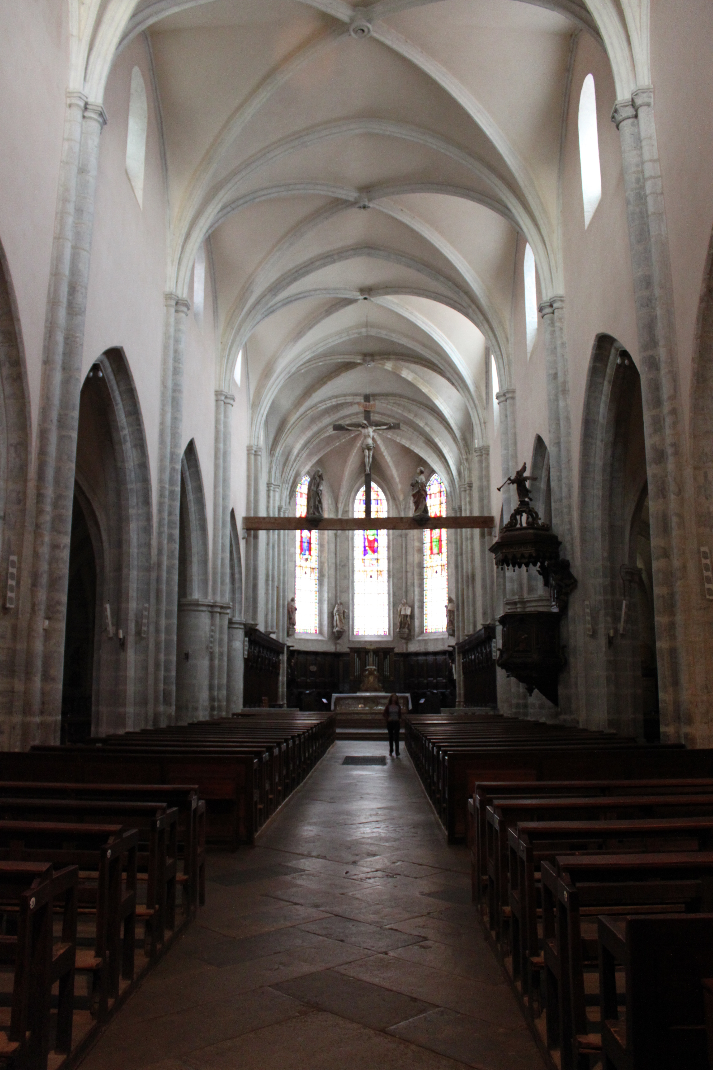 Poligny, Jura, France